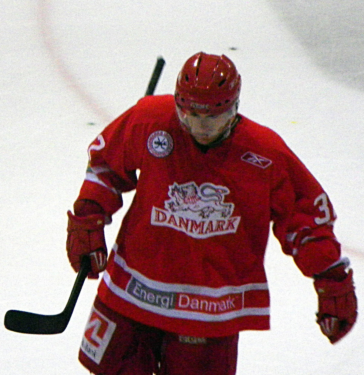 Nichlas Hardt, danish ice hockey player with team Denmark. Friendly against team France